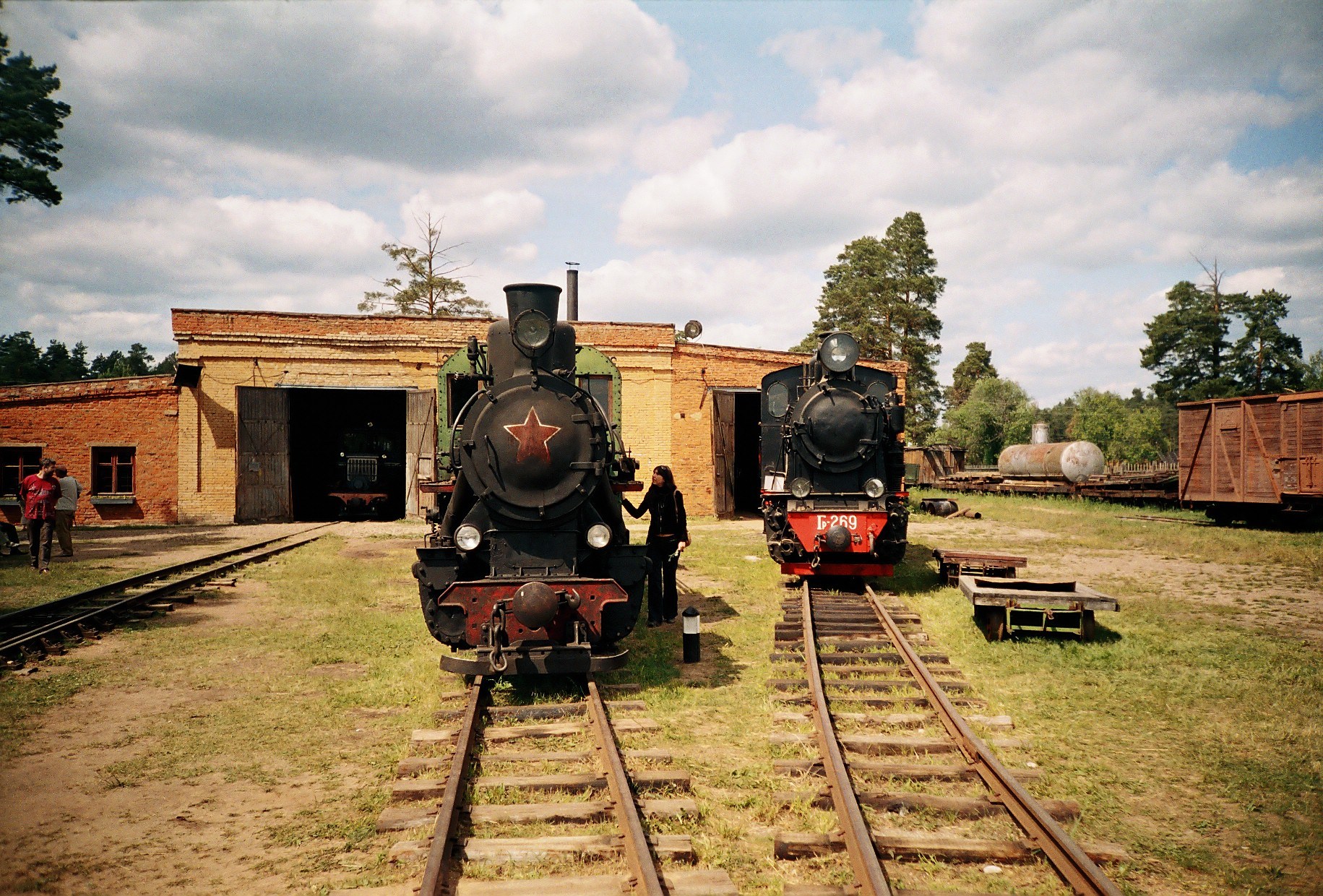 Russian narrow gauge steam locomotives in Pereslavl Railway Museum